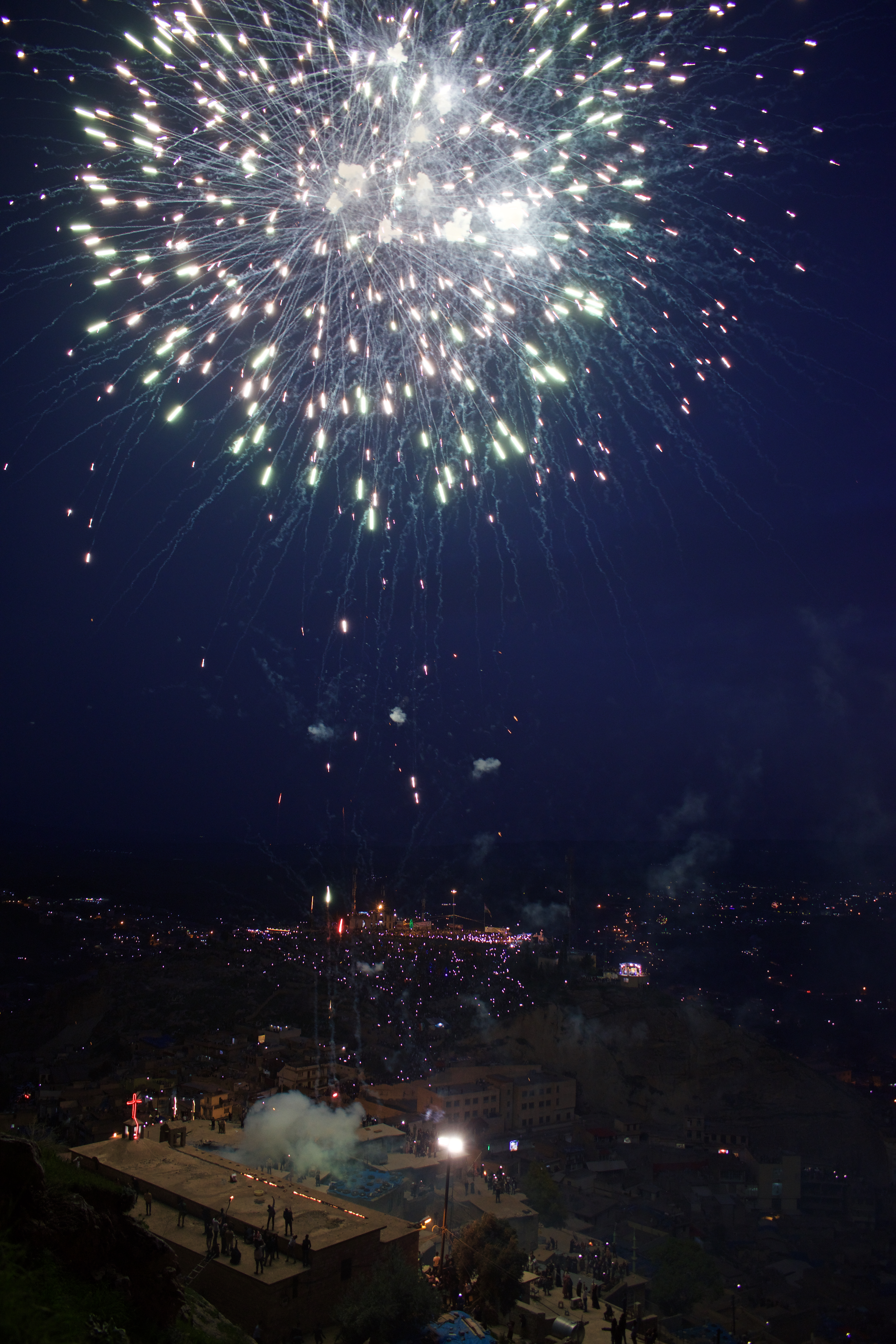 Views of fireworks for the Nawroz festival in 2018 in Akre